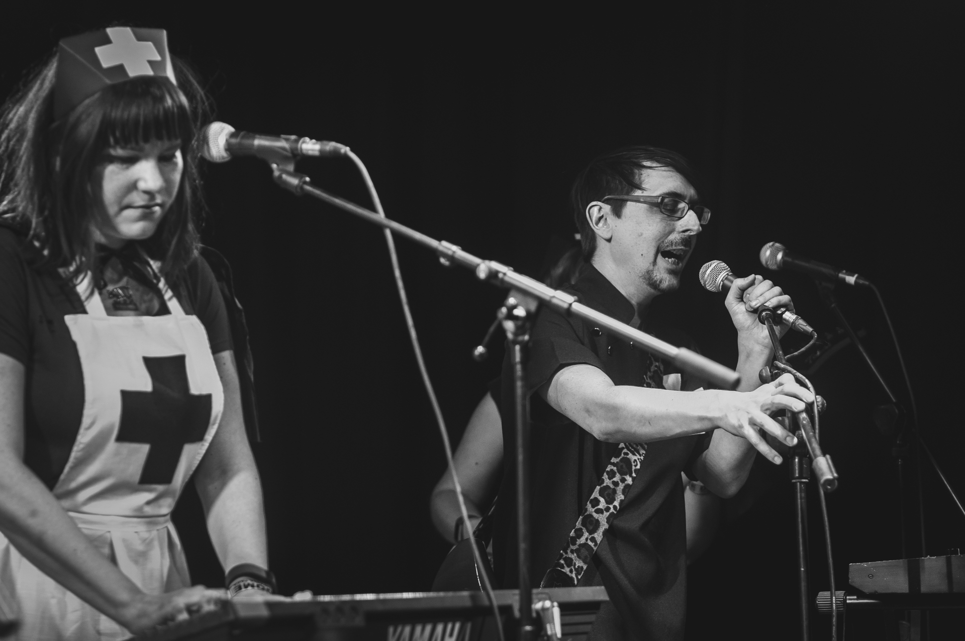 Bearsuit